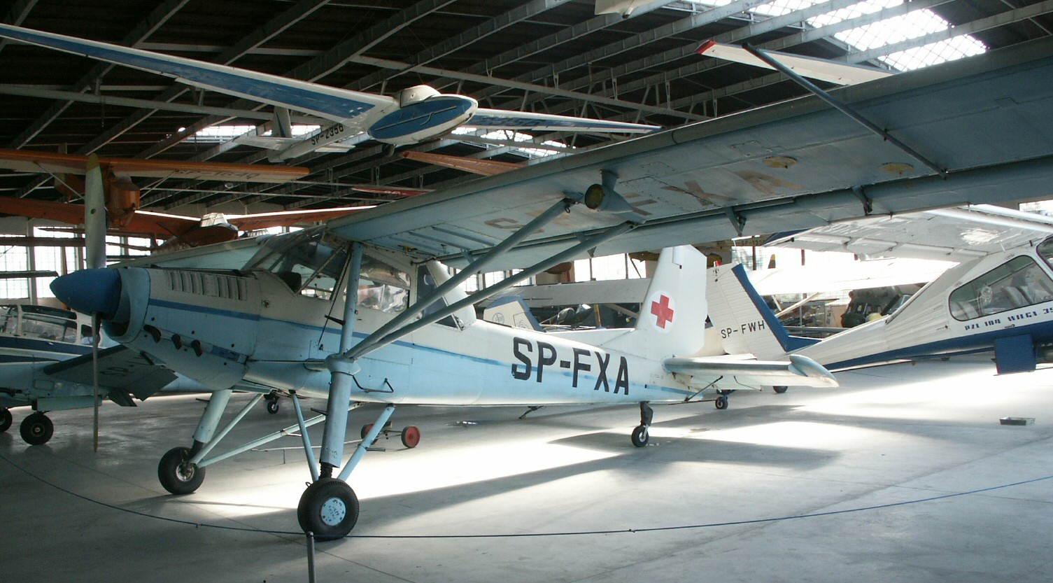 Aero L-60 Brigadýr - Czechoslovak utility aircraft in the Polish air ambulance service markings at the Polish Aviation Museum in Kraków.